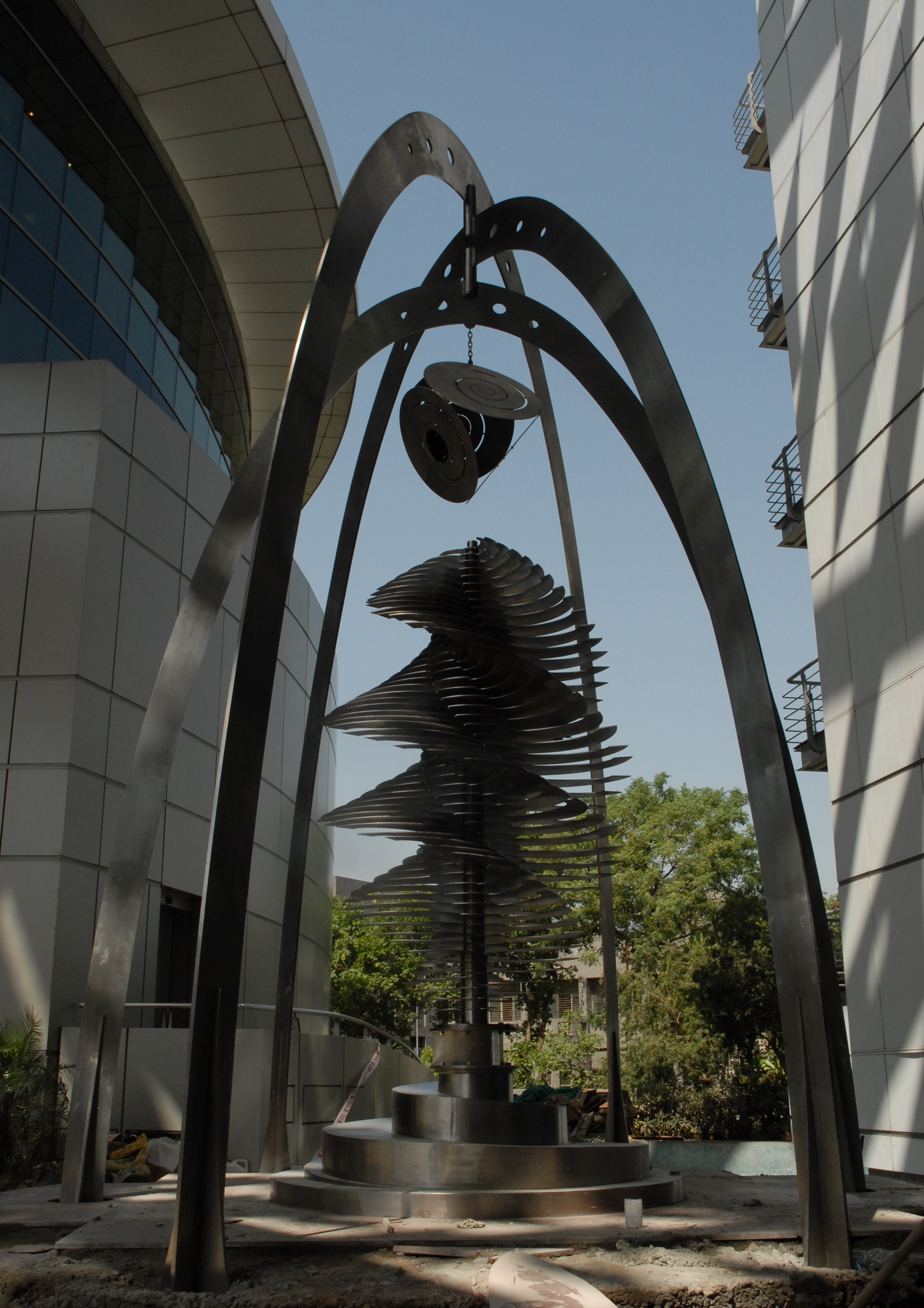 Photo by Balan Nambiar in 2010. It depicts a sculpture made by me, 6.3 m. high. It is at the premises of the Indian Oil Corporation Limited Corporate Office of New Delhi, India.